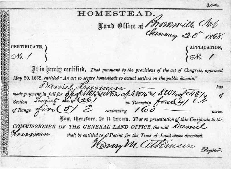 certificate of the first homestead according to the homestead act. given to Daniel Freeman in Beatrice, Nebraska 1963